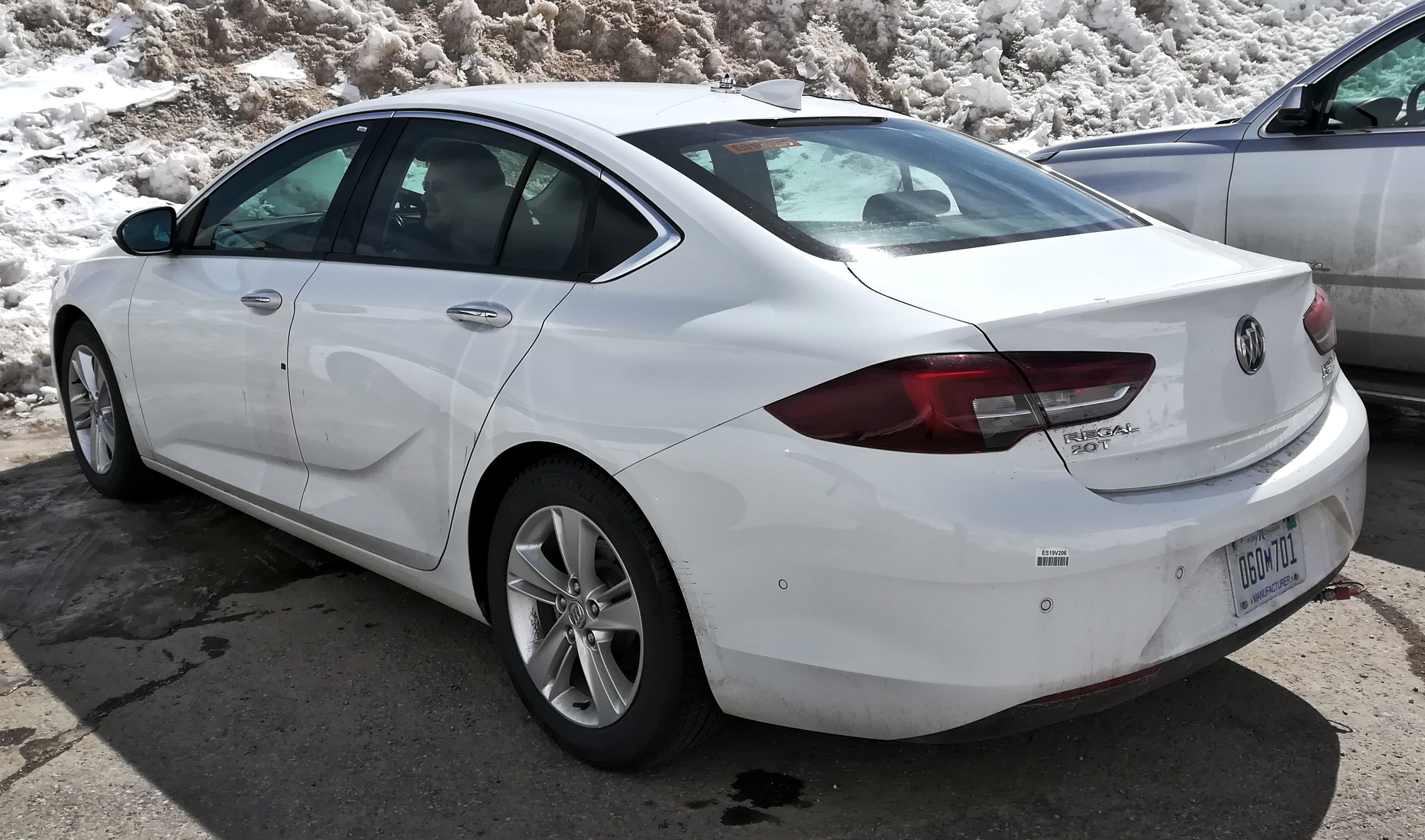 Buick Regal 2.0T